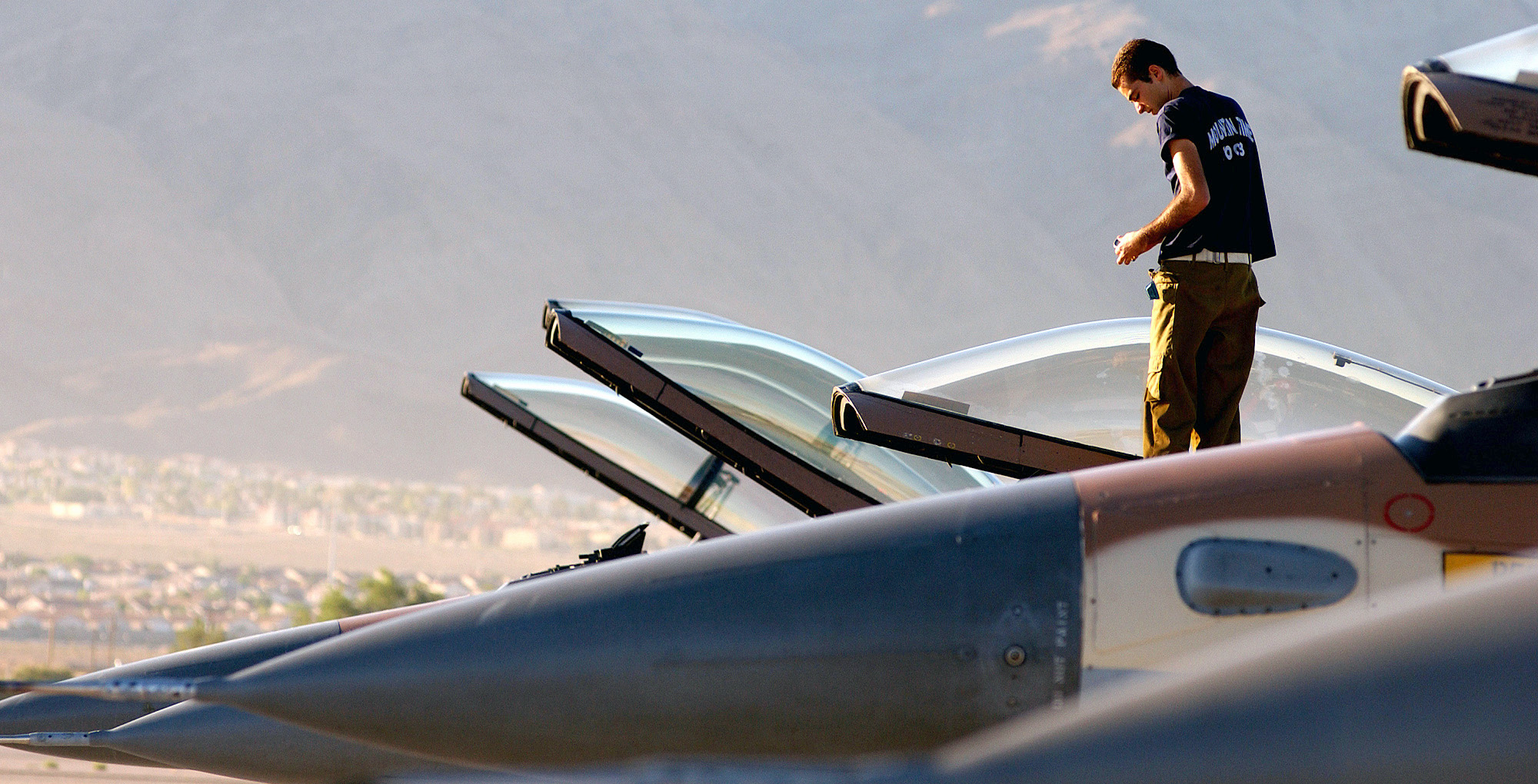 ISRAELI Air Force (IAF) Sergeant (SGT) Oren Barazani, F-16 Fighting Falcon aircraft Crew Chief, cleans the cockpit canopy of his aircraft, on the flight line at Nellis Air Force Base (AFB), Nevada (NV), during Exercise RED FLAG 2003. Red Flag is currently the most realistic simulated air-warfare training exercise held anywhere in the world. It regularly involves the air forces of the United States and its allies. Location: NELLIS AFB, NEVADA (NV) UNITED STATES OF AMERICA (USA)